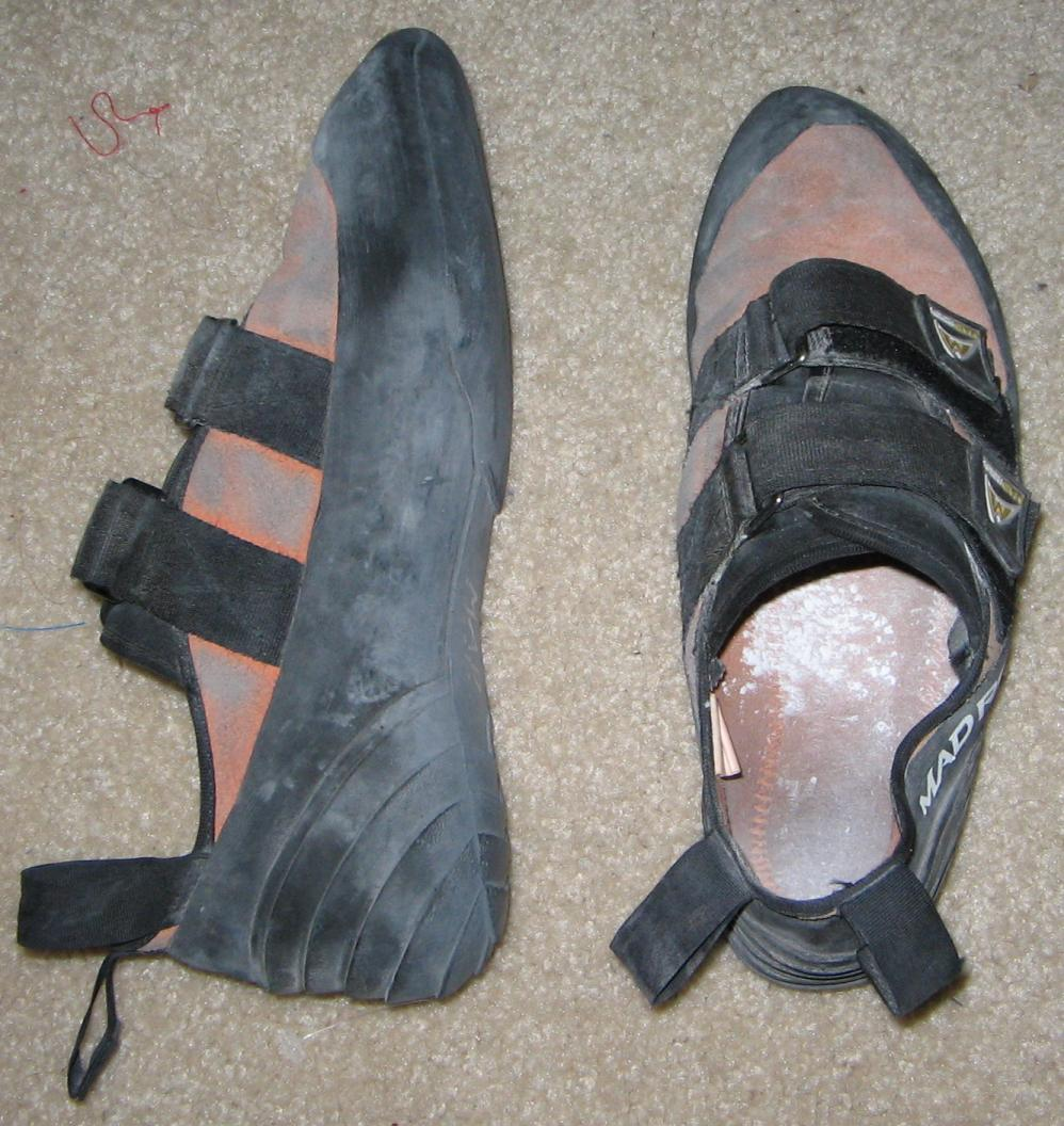 Climbing shoes.